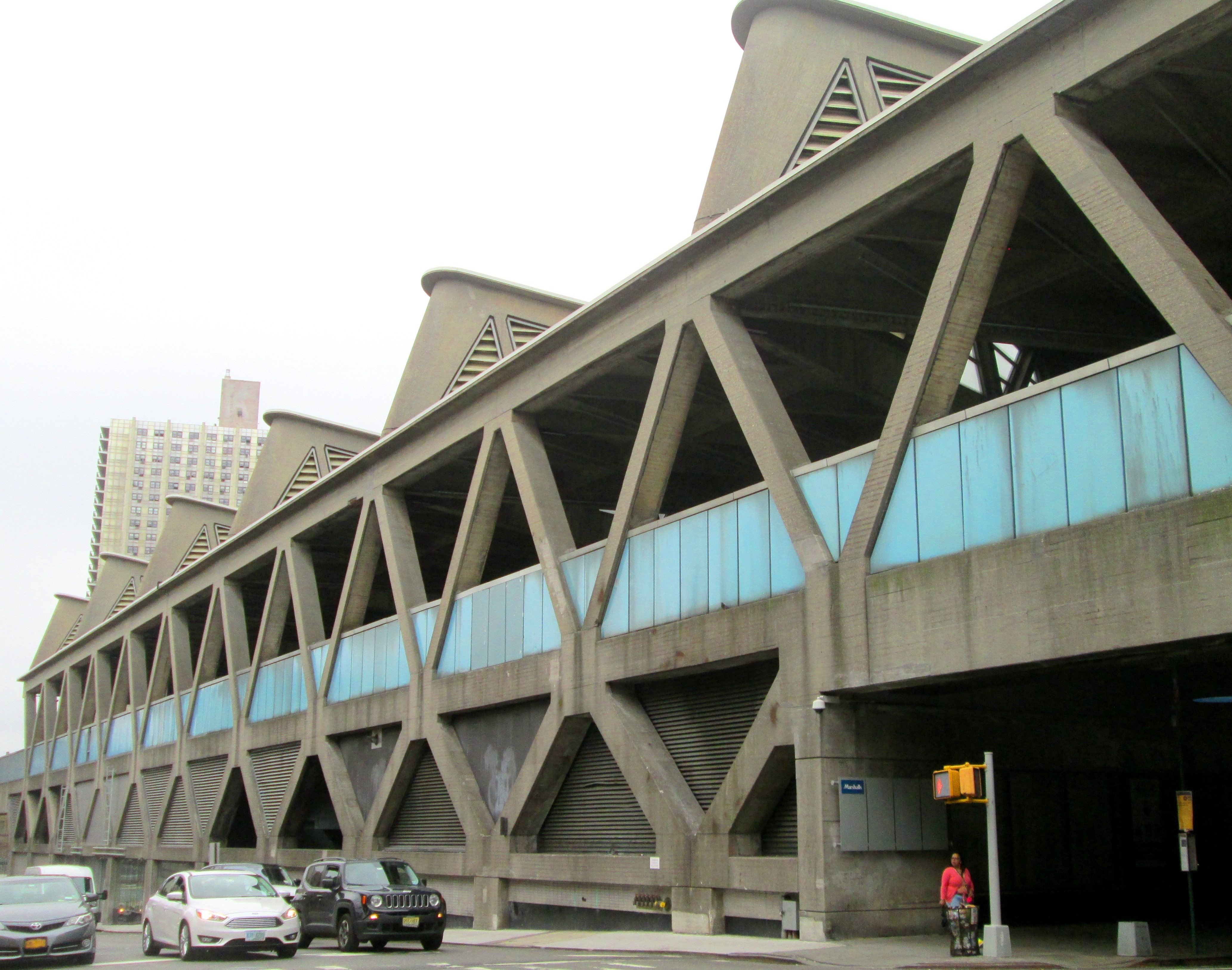 The George Washington Bridge Bus Station, located between Fort Washington and Wadsworth Avenues and 178th and 179th Streets in the Washington Heights neighborhood of Manhattan, New York City, straddles the Trans-Manhattan Expressway (Interstate 95). It was built in 1963 and was designed by the Port Authority of New York and New Jersey and Pier Luigi Nervi. (Source: AIA Guide to NYC (5th ed.) This image was taken from the northwest corner of Fort Washington Avenue and 179th Street.